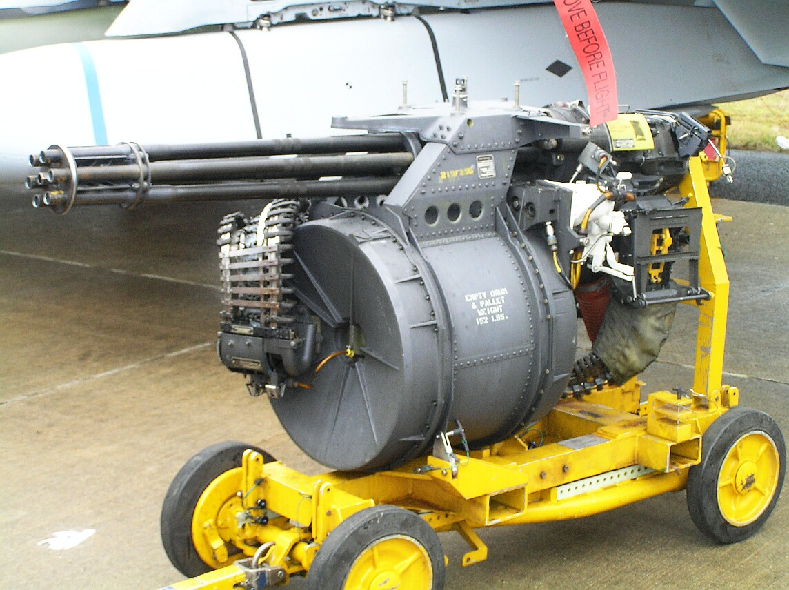 M-61 Vulcan on display at Avalon 2013.